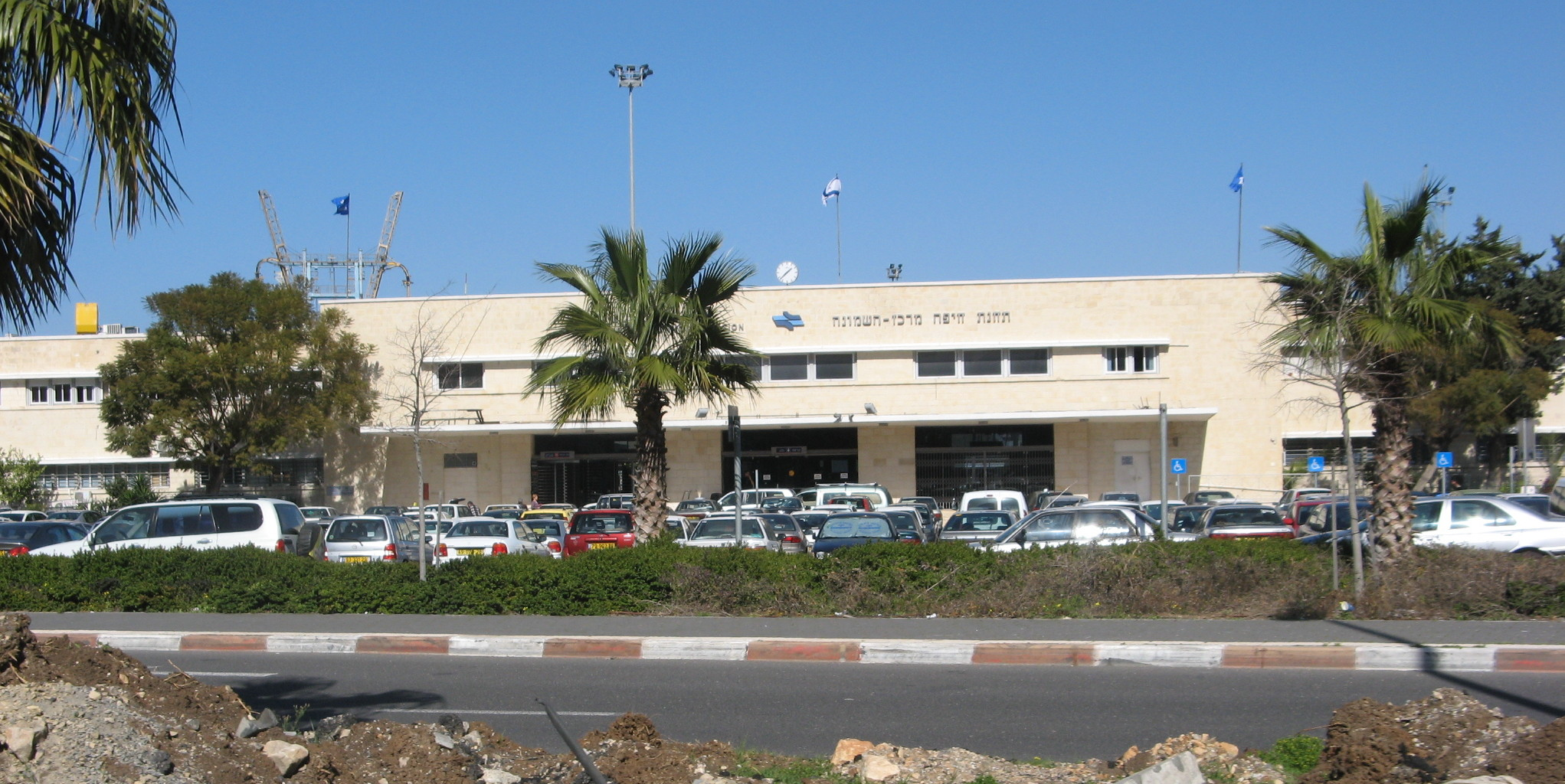 Haifa Central Train station